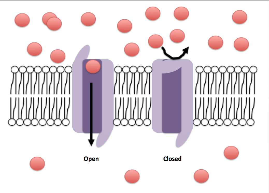 The open conformation allows the flow of ions (red circles) while the closed conformation does not allow the movement of ions across the cell membrane.